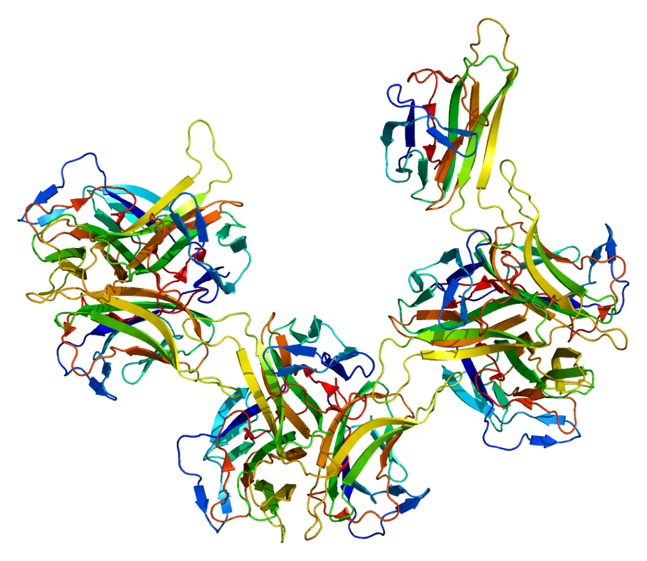 Structure of the TNFSF13B protein. Based on PyMOL rendering of PDB 1jh5.